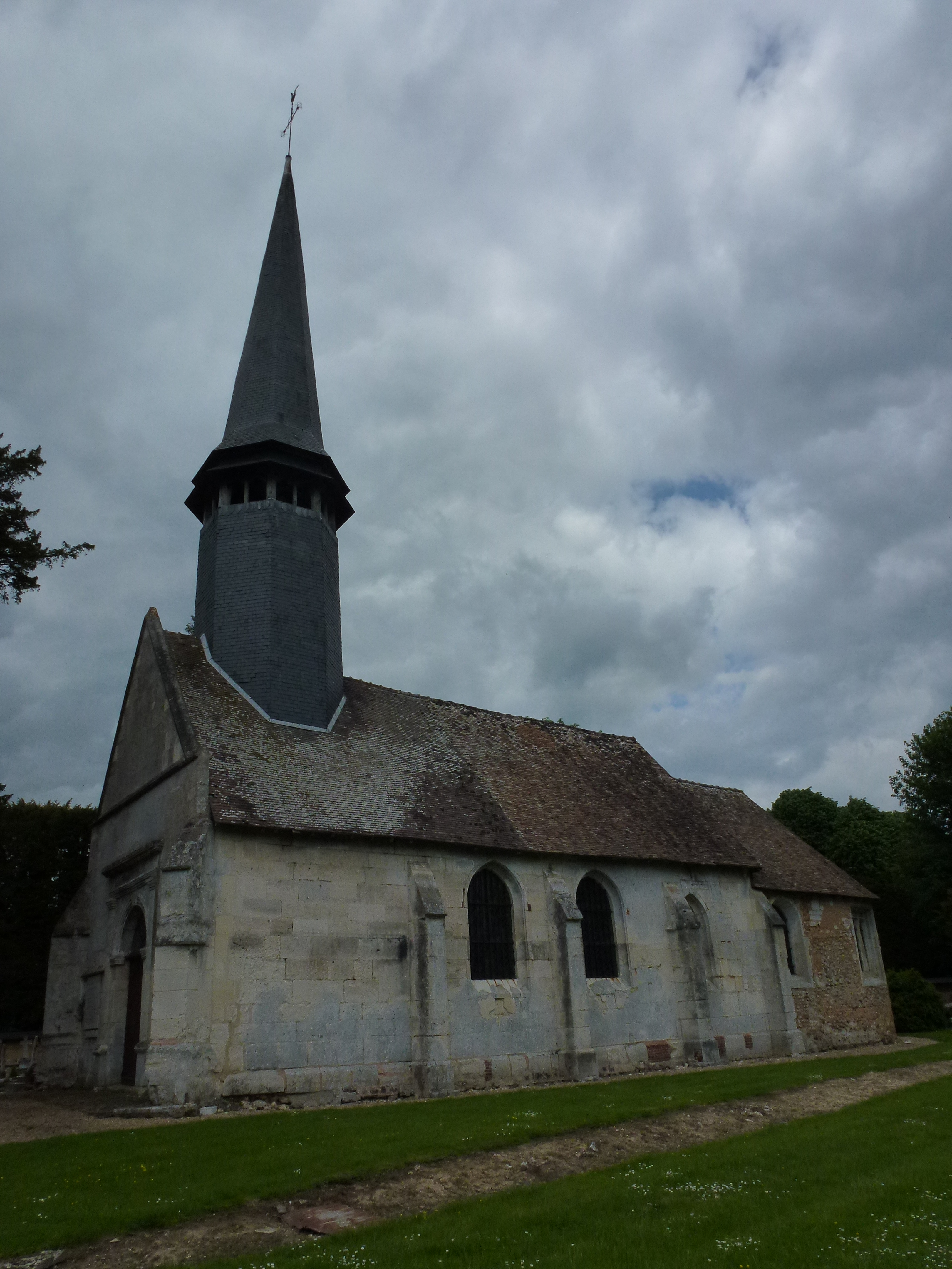 Le Troncq (Eure, Fr) église